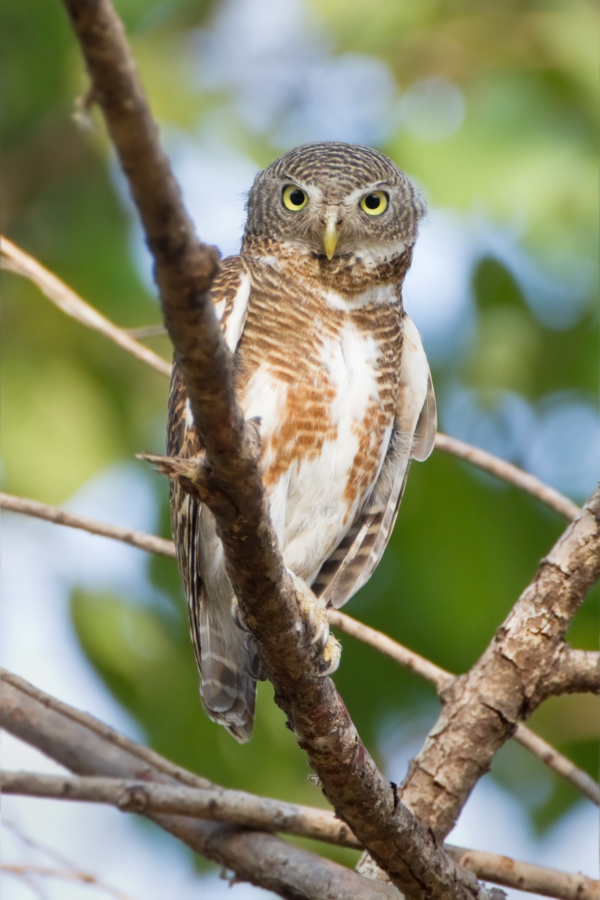 Asian Barred Owlet (Glaucidium cuculoides), Mae Wong National Park, Nakhon Sawan,Thailand